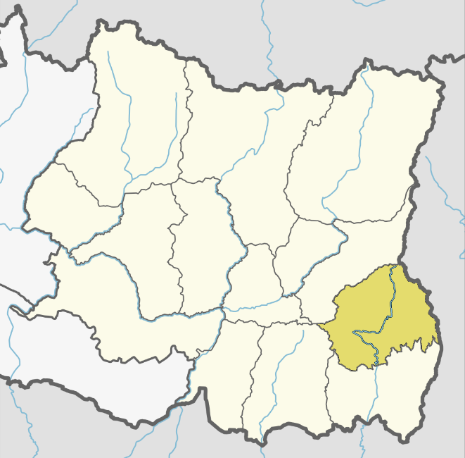 Ilam district